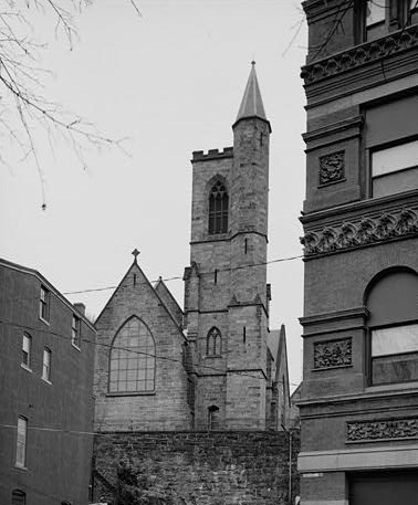 St. Mark's Episcopal Church, Race Street, Jim Thorpe (Carbon County, Pennsylvania) (cropped) A Historic American Buildings Survey—HABS image.